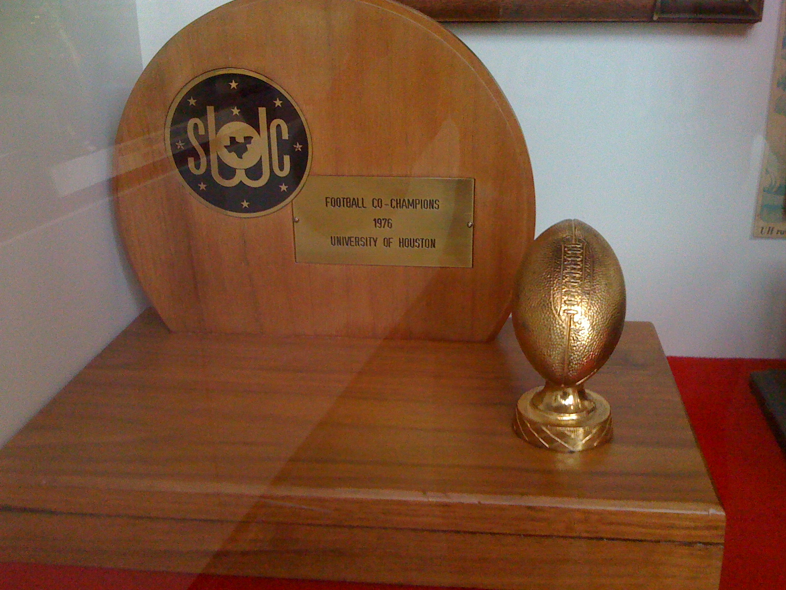 The 1976 Southwest Conference football championship trophy as won by the 1976 Houston Cougars football team. It was the first season of play for the team in the conference. The trophy is now housed in the Cougar Hall of Fame as part of the Athletics/Alumni Center on the University of Houston campus.